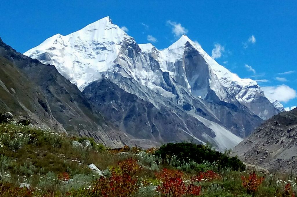 Mt. Bhagirathi II,III and I